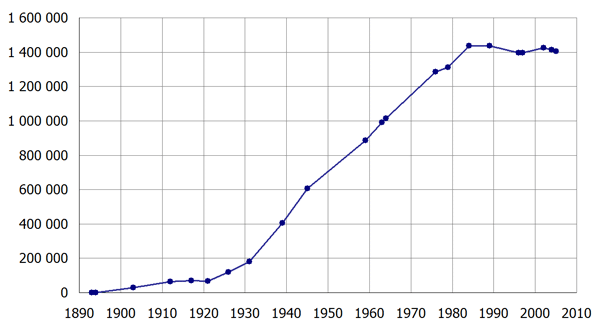 Novosibirsk city (Russia) population dynamics between foundation in 1893 and 2005.